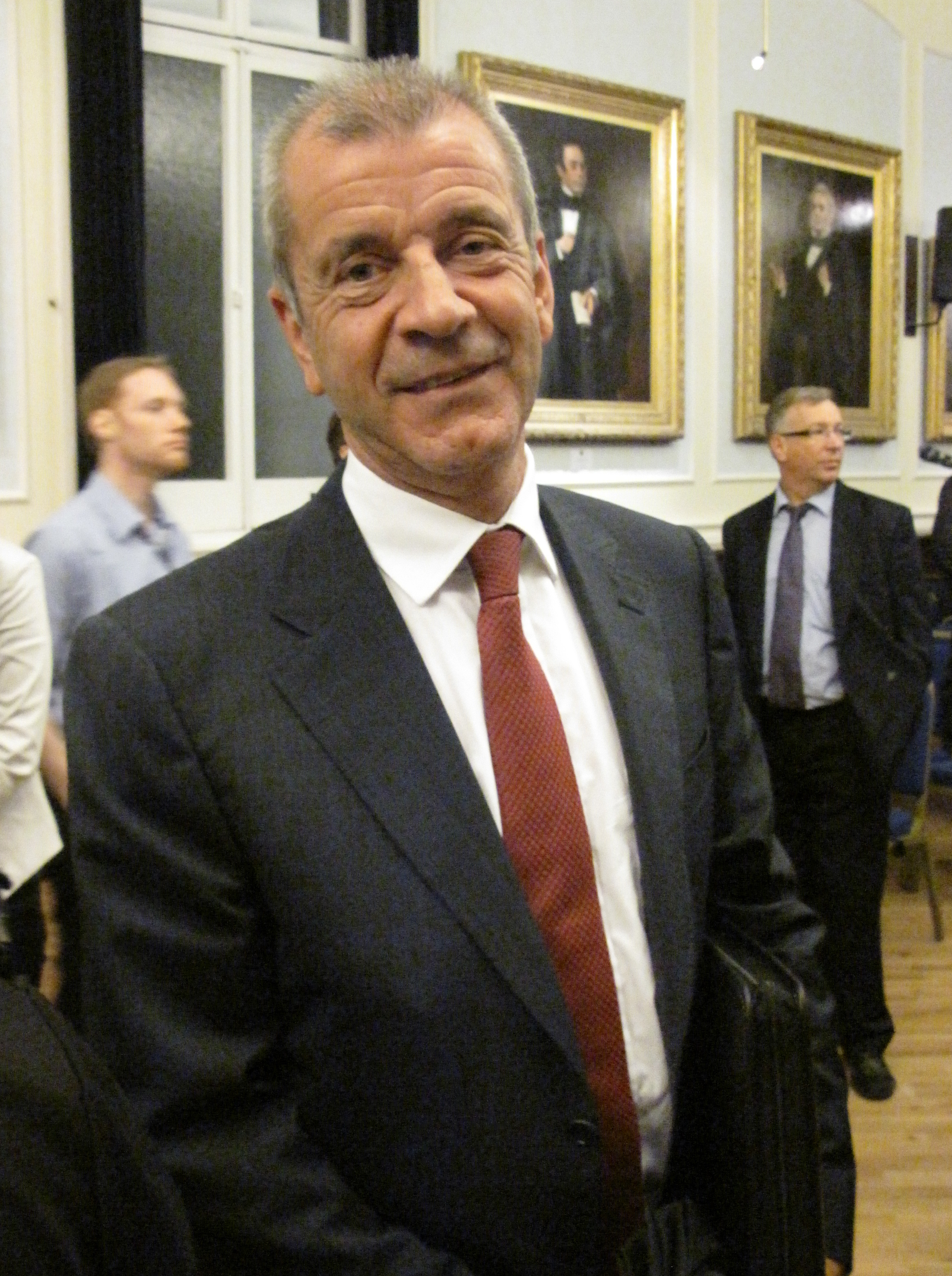 Nominations for Senator, 6 September 2011 - Francis Le Gresley